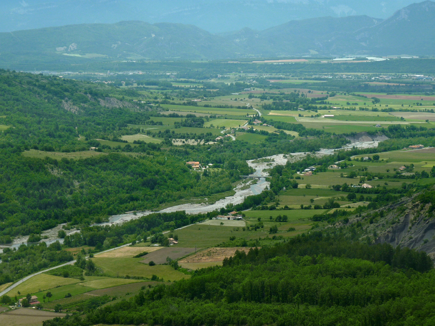 Sasse river near Valernes